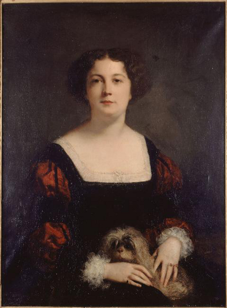 Woman with dog. Portrait of Apollonnie Sabatier